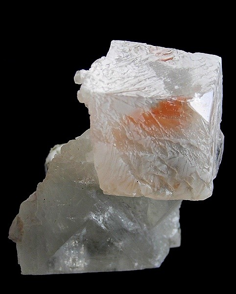 Dolomite, Magnesite Locality: Serra das Éguas, Brumado (Bom Jesus dos Meiras), Bahia, Northeast Region, Brazil (Locality at ) Size: 6.2 x 4.2 x 1.3 cm. Here, you have a triangular twin of dolomite, with a glassy triangular face in the center and frosted bevels, intergrown with a sharp rhomb of magnesite, classic from this locality. That hint of color in the magnesite is from hematite inclusions.